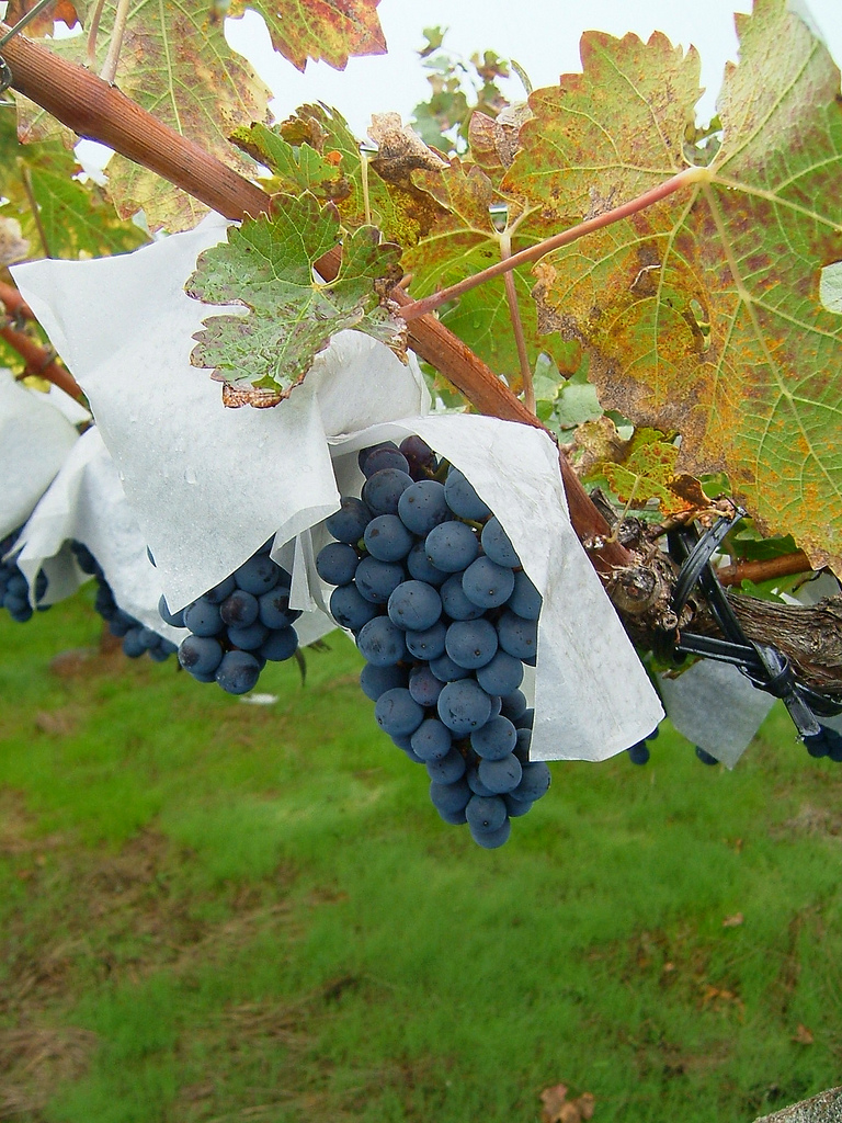 A vineyard at Katsunuma, Japan. The area is known as one of the major wine producing regions in Japan.